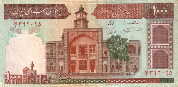 1000 IRR banknote (1982 issue)